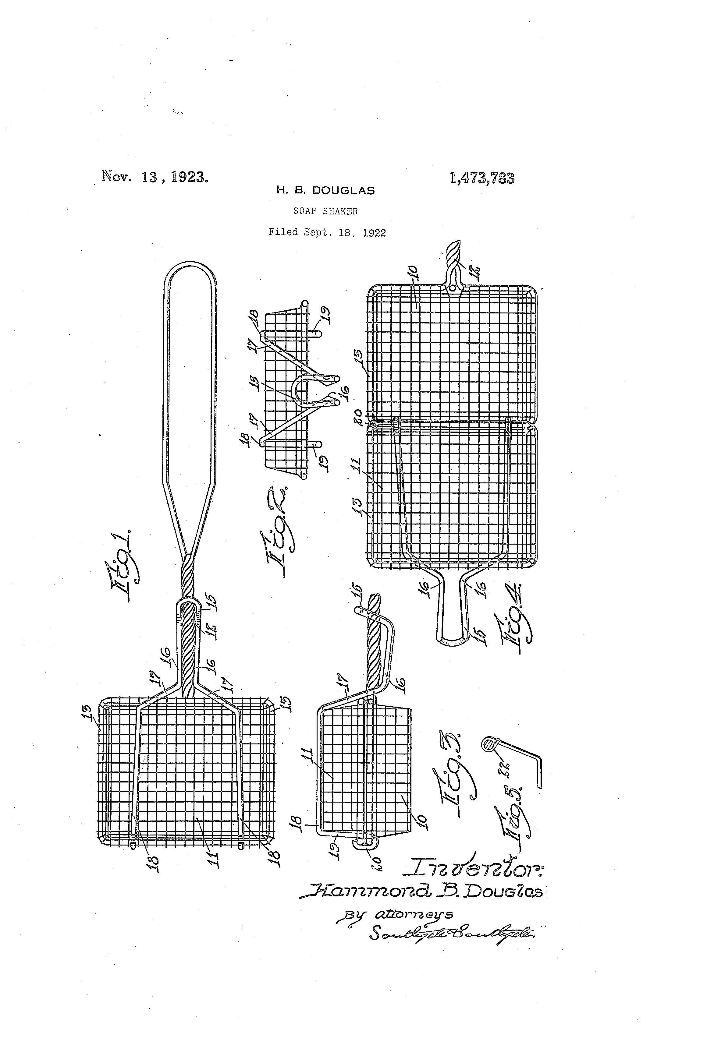 Household apparatus for holding bar soap pieces. When shaken in water suds are formed.